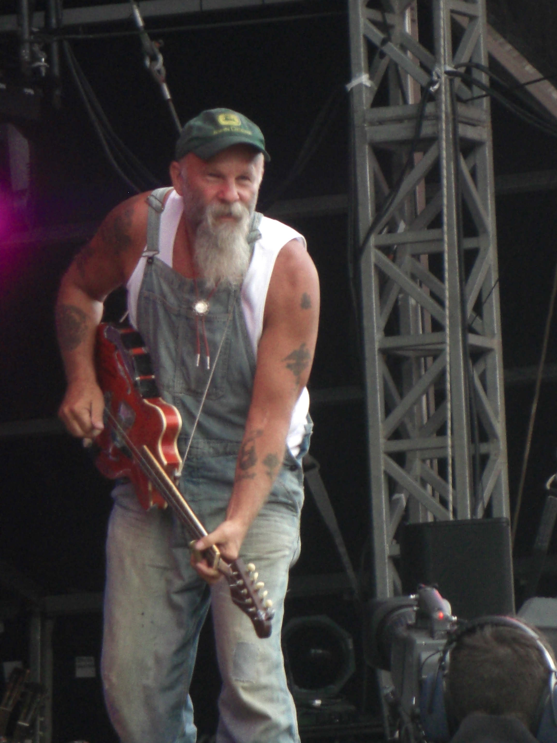 Seasick Steve at Hard Rock Calling in 2009.